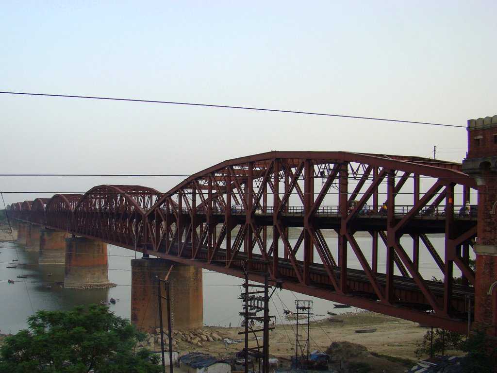 Own Work